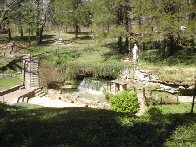 St. Joseph Roman Catholic Church, Apple Creek, Missouri Shrine